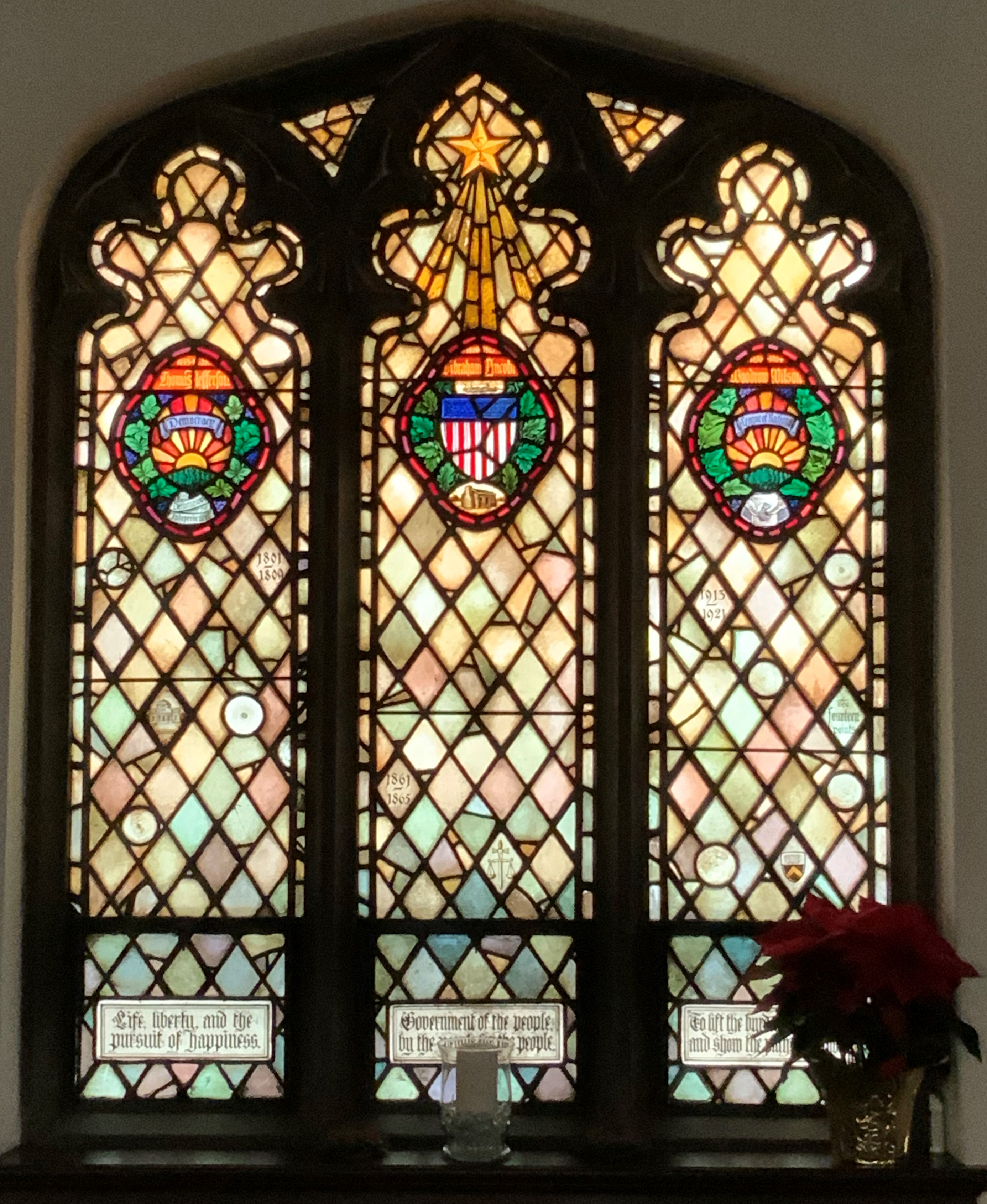 Medallions honoring Thomas Jefferson, Abraham Lincoln, and Woodrow Wilson, with symbolic representation of their role in US war and peace